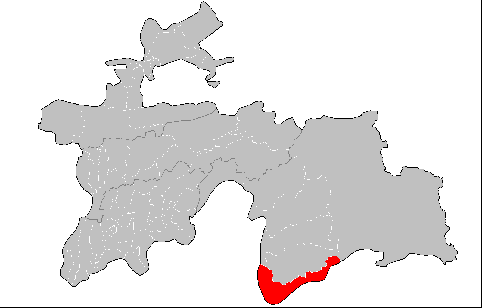 Location of Ishkoshim District in Tajikistan